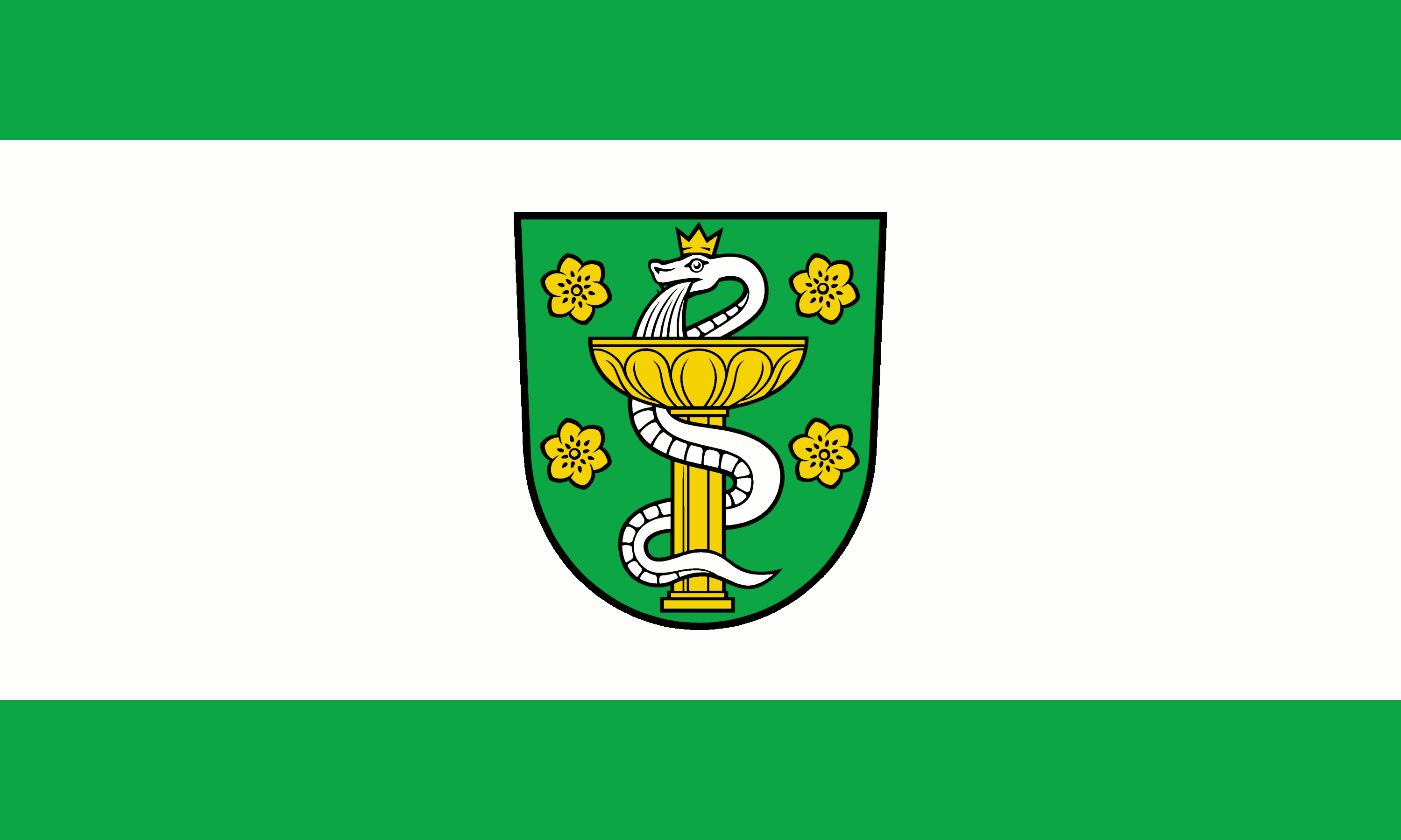 horizontal display flag of the German municipality of Burg (Spreewald)